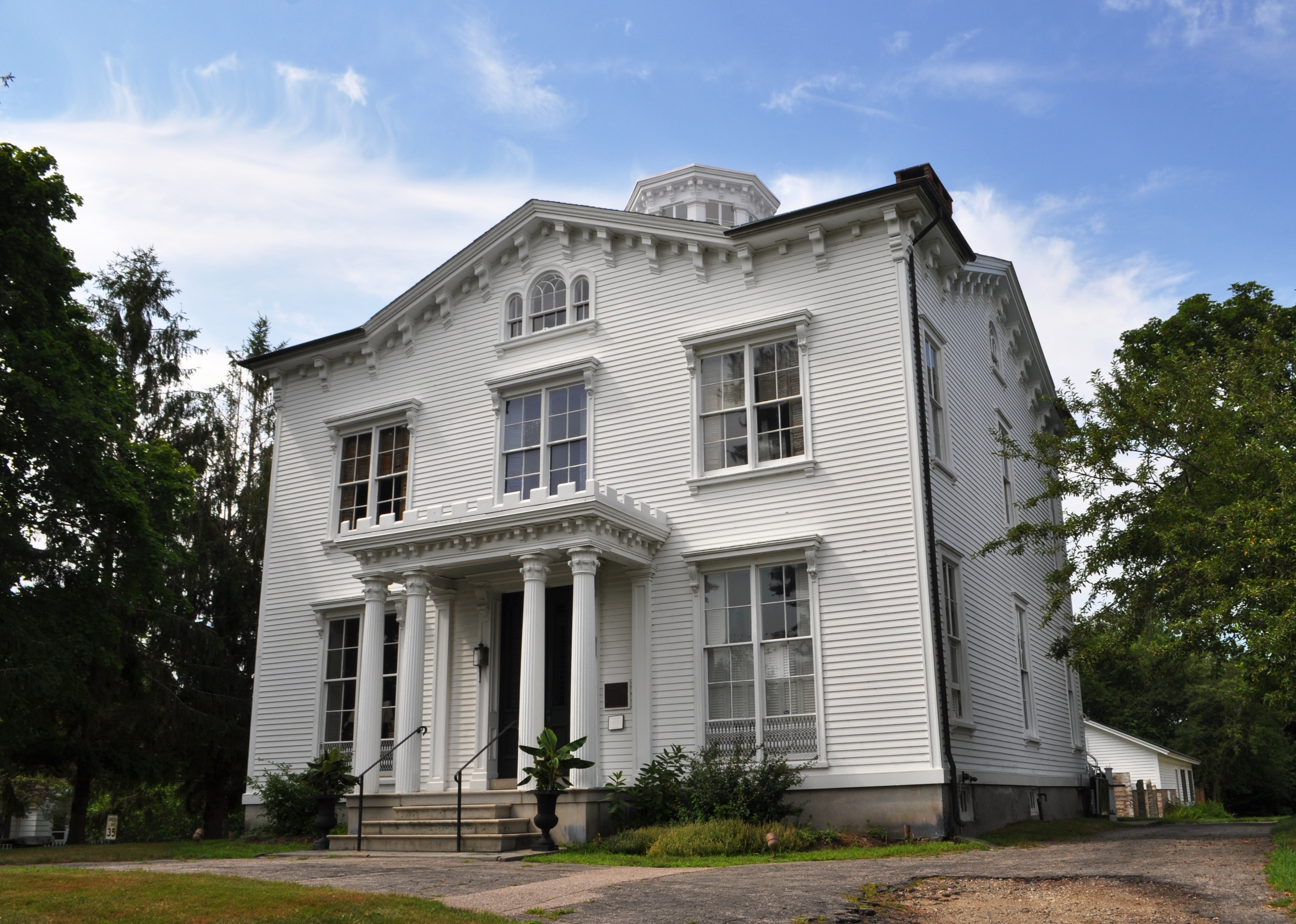 The Nathaniel Palmer House in 2013.